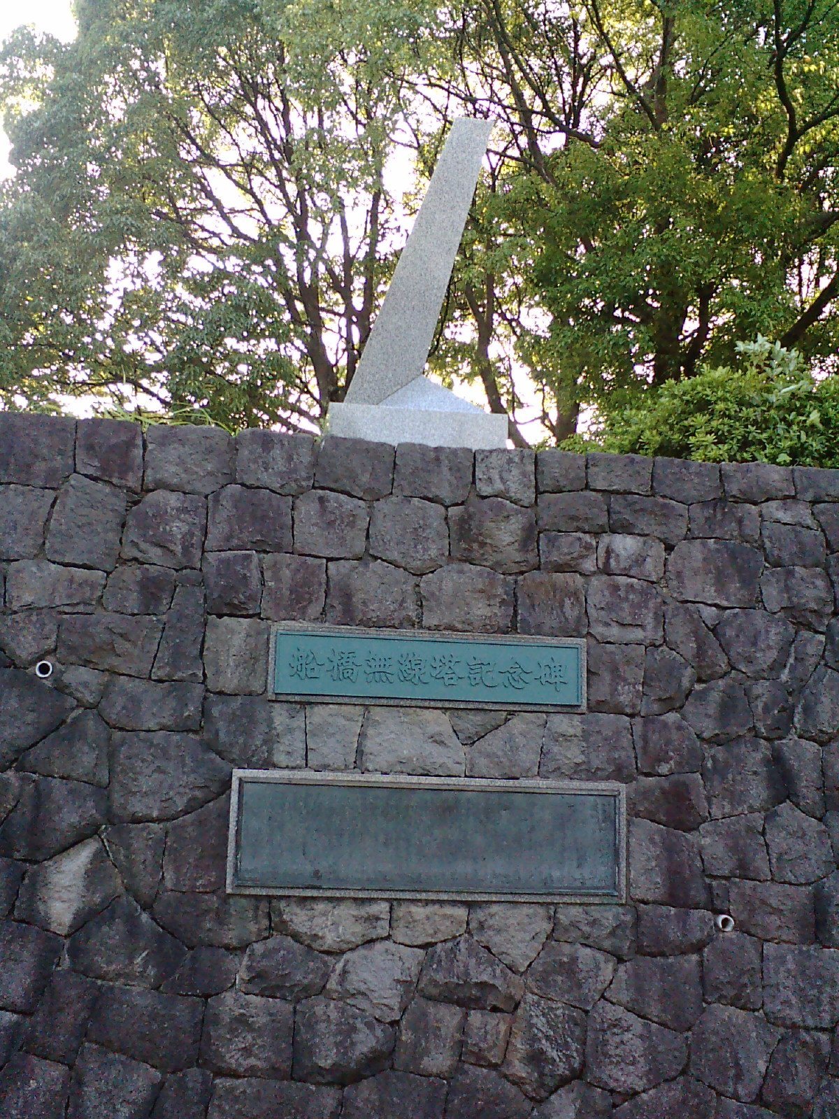 The memorial monument of Imperial Japanese Navy wireless place Funabashi, Chiba transmitting station, where Attack on Pearl Harbor command transmitted on December 2, 1941.